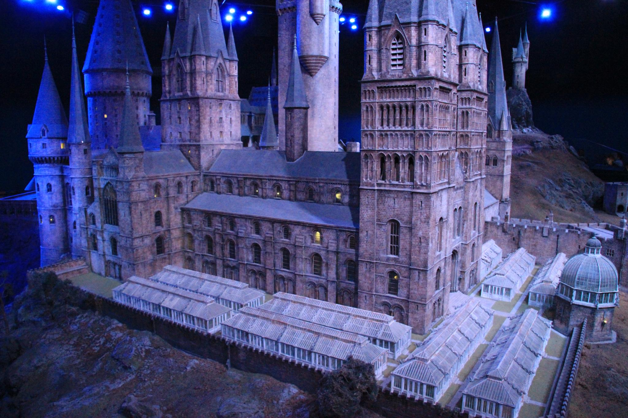 Warner Bros. Studio Tour London: The Making of Harry Potter.